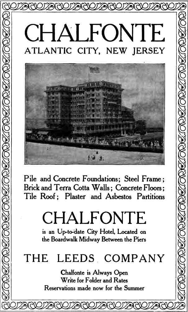 Advertisement for the Chalfonte| Hotel in Atlantic City, New Jersey